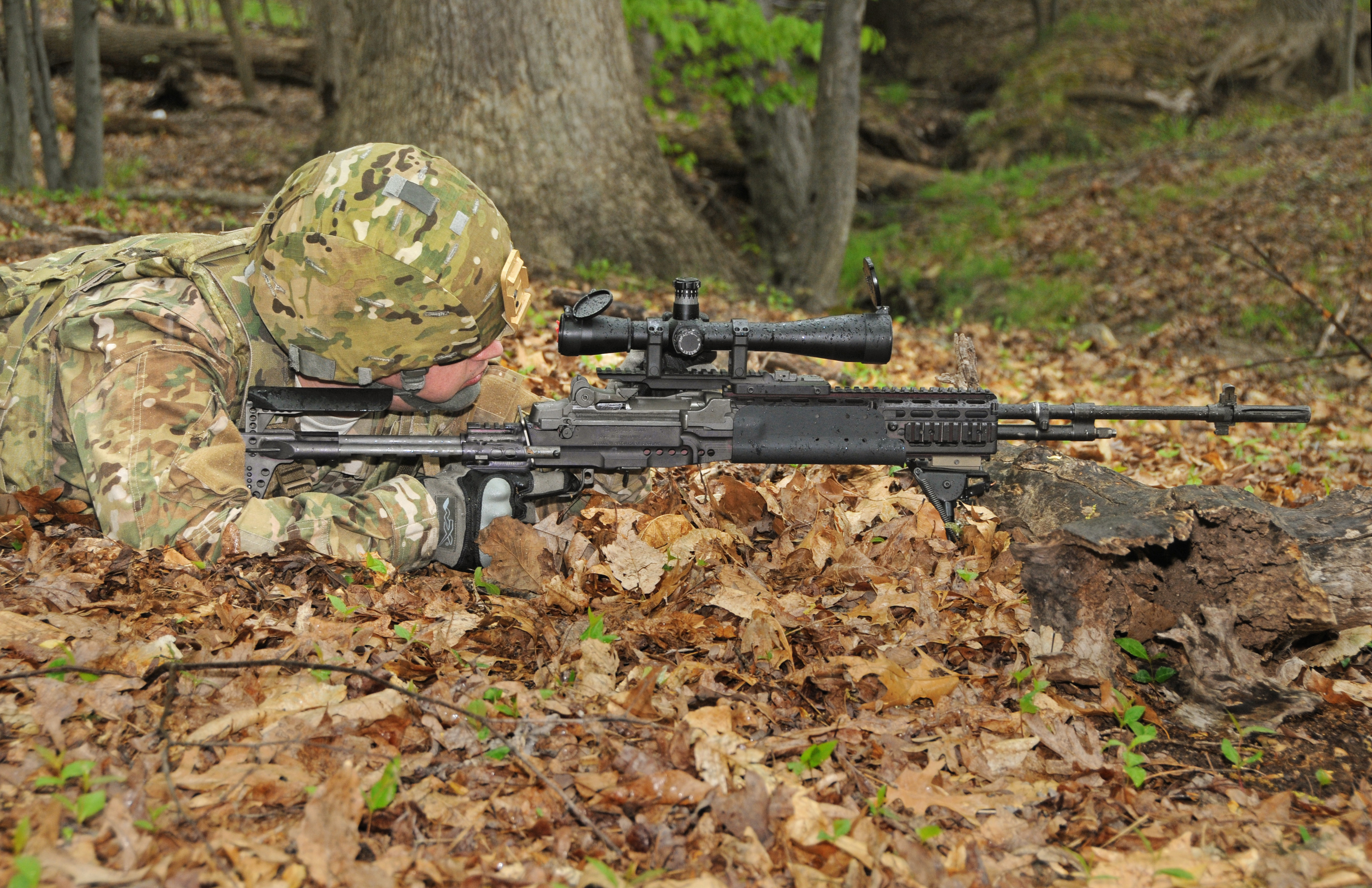 The M14 EBR provides infantry squads with the capability to engage enemy targets beyond the range of M4 Carbines and M16 Rifles.